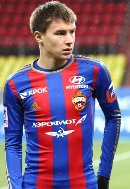 Ravil Netfullin with PFC CSKA Moscow.